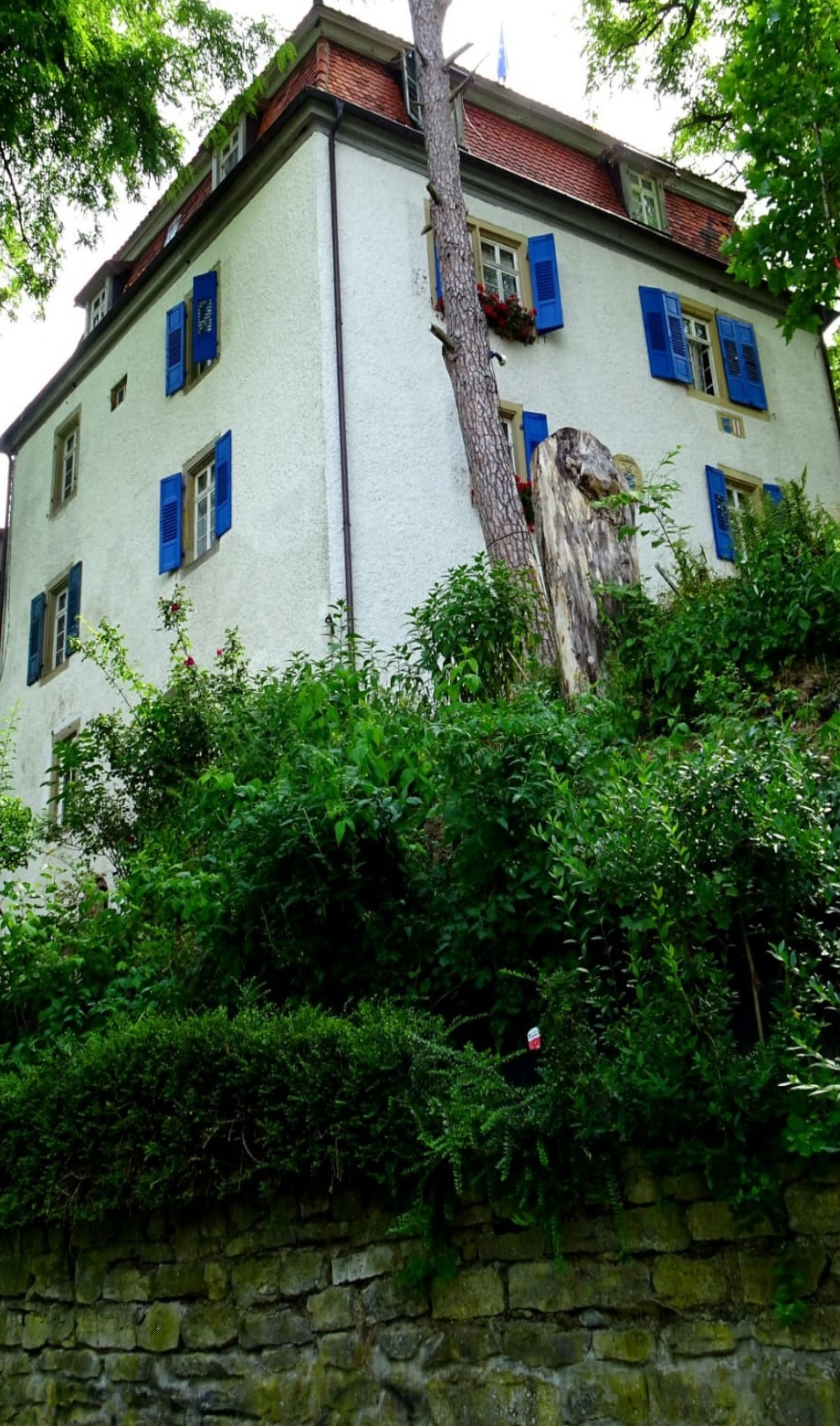 Look from the cyclingpath to the backside of castle oedheim